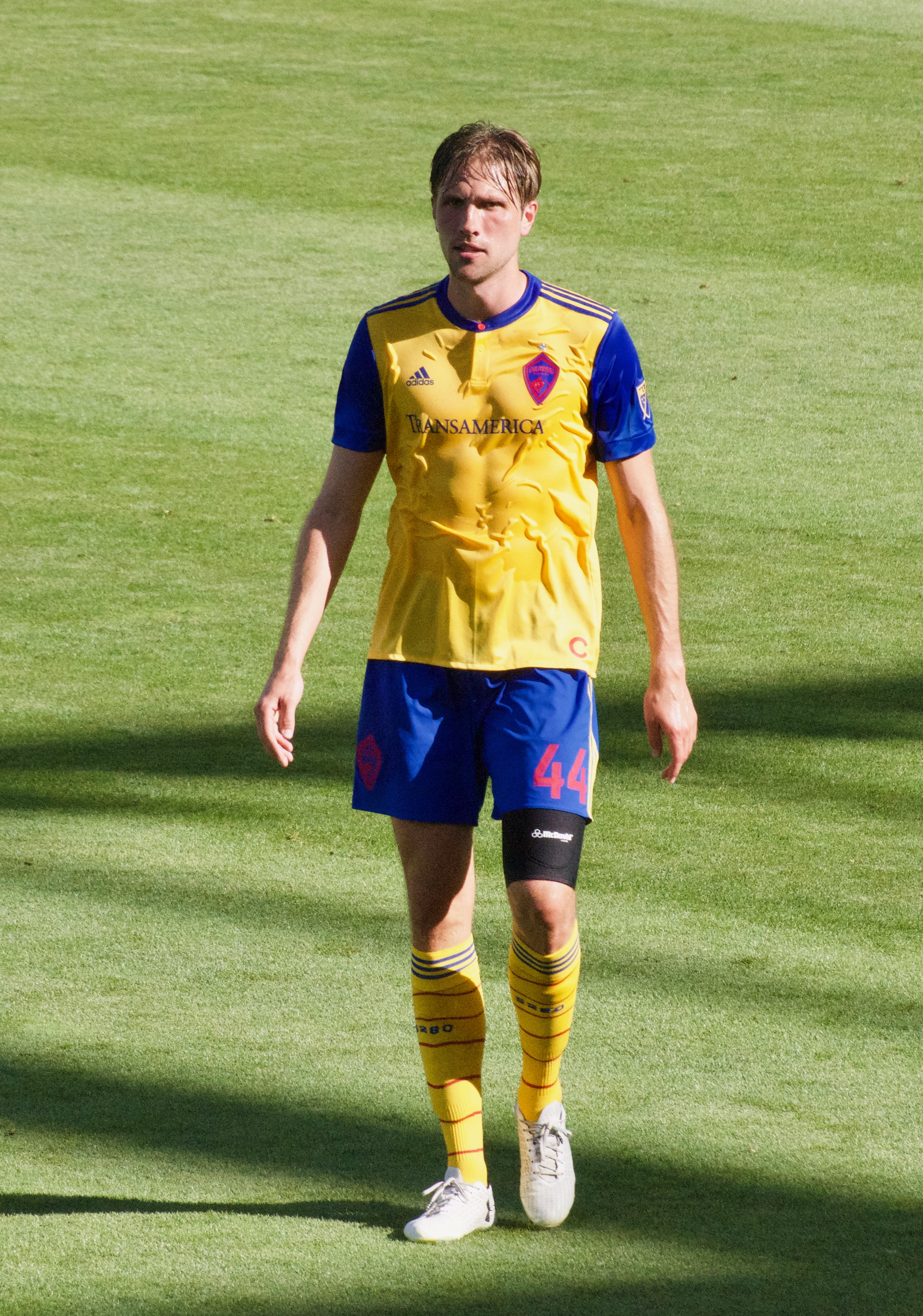 Axel Sjöberg playing for Colorado Rapids. Avaya Stadium, 29 July 2017.